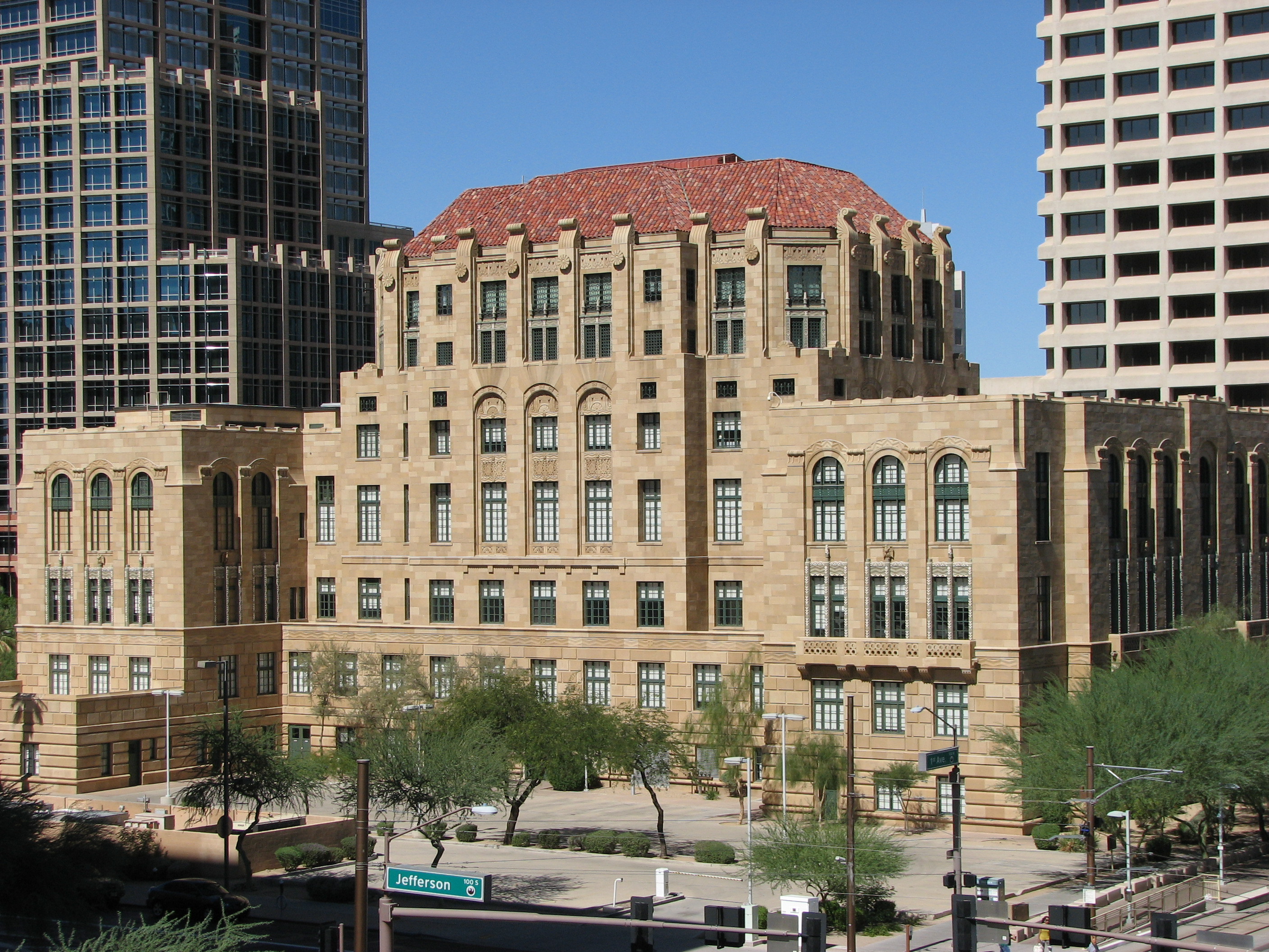 Maricopa County Courthouse in Phoenix, Arizona, on October 6, 2013.